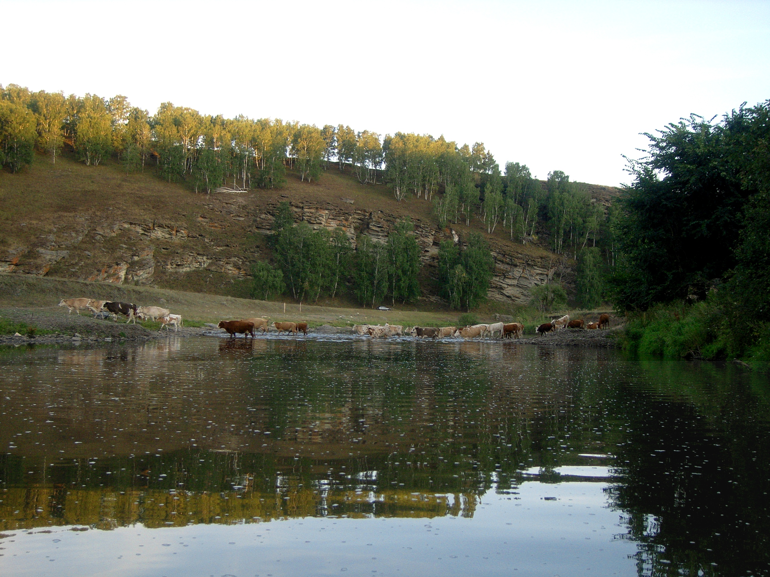 Cow-ford.